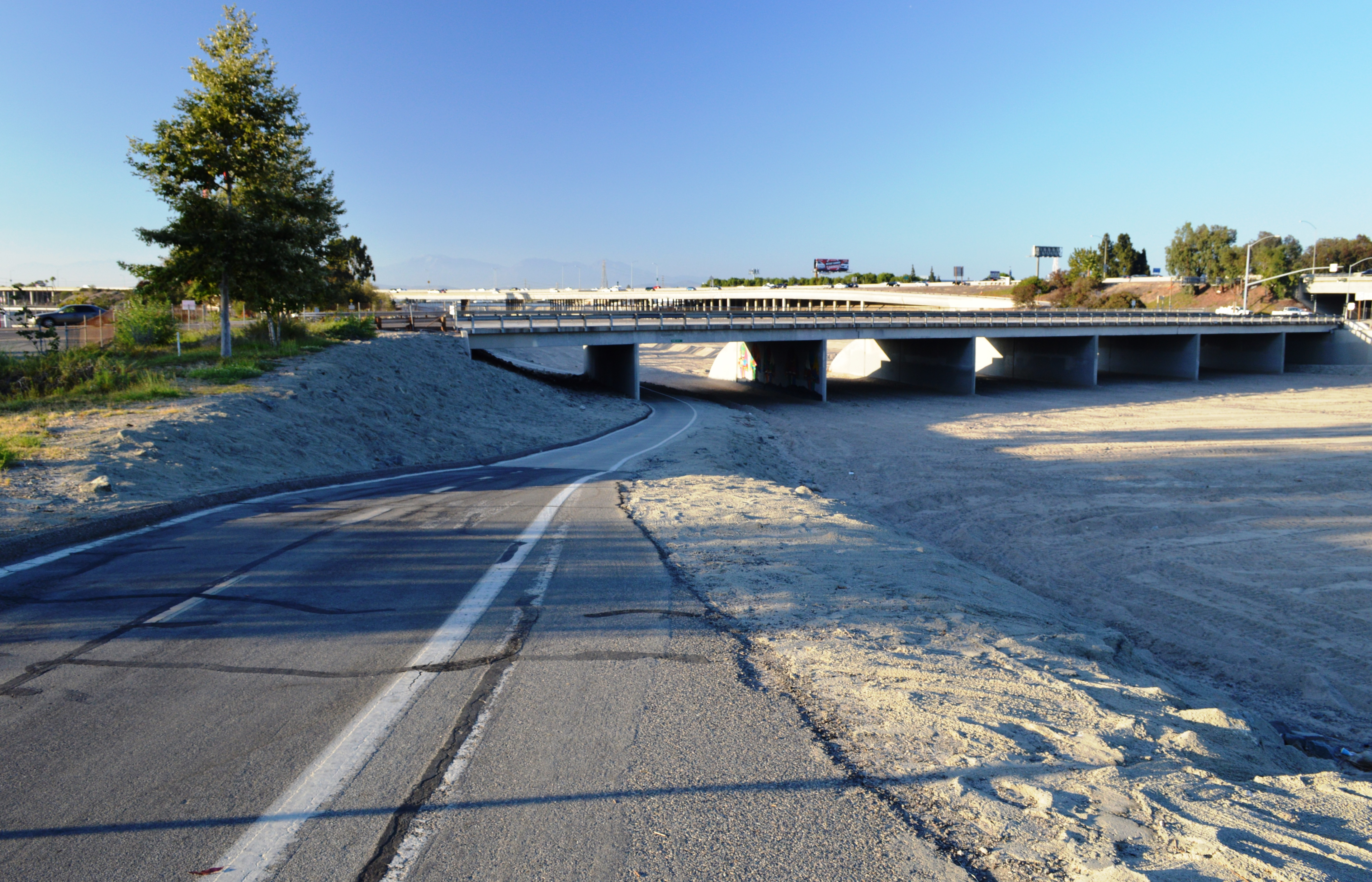 Santa Ana River Trail, with the Orangewood Avenue bridge and SR-57 (Orange Freeway) in the background. You can see part of the "Big A" tower through the tree on left if you zoom in.